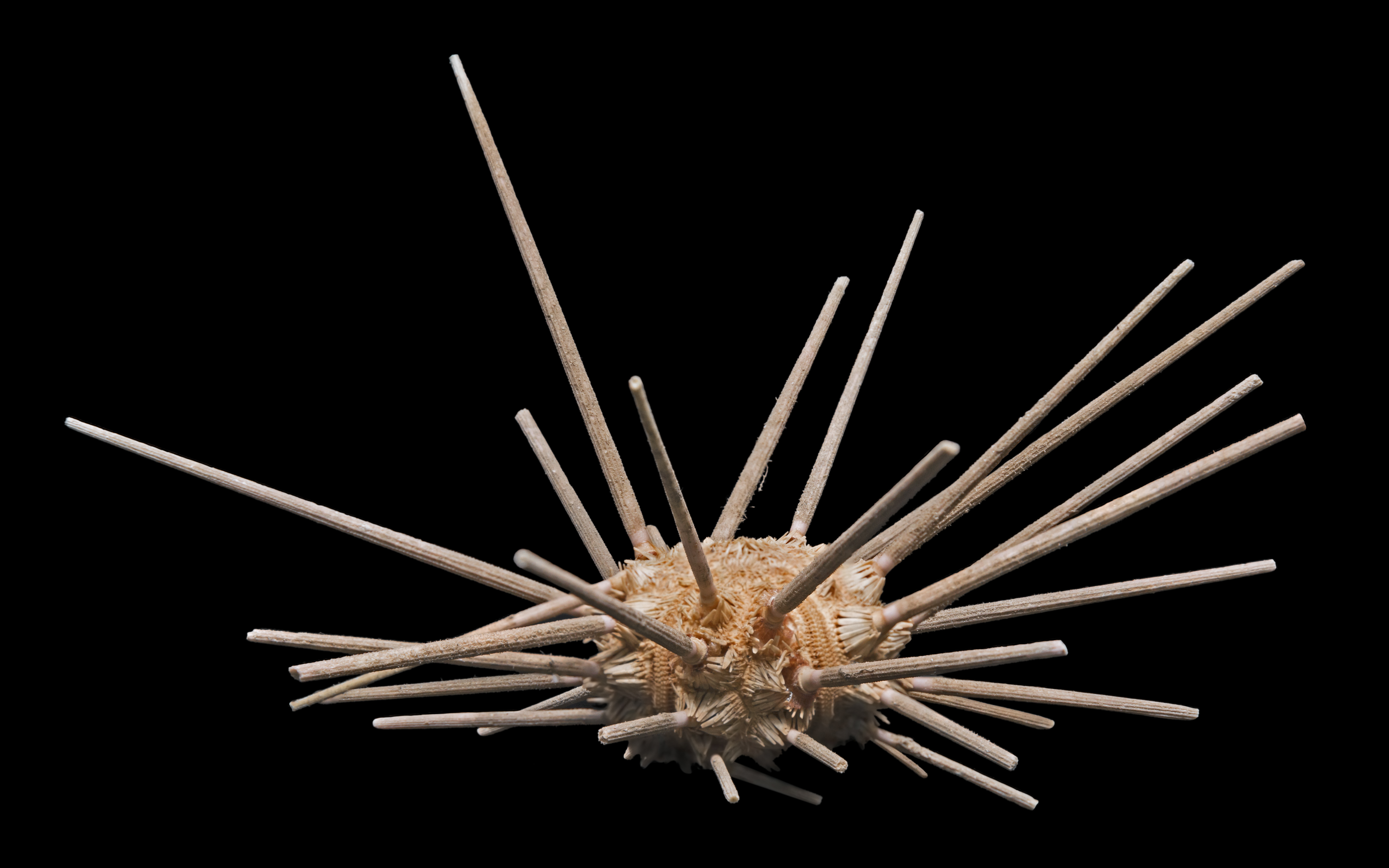 Long-spine slate pen sea urchin